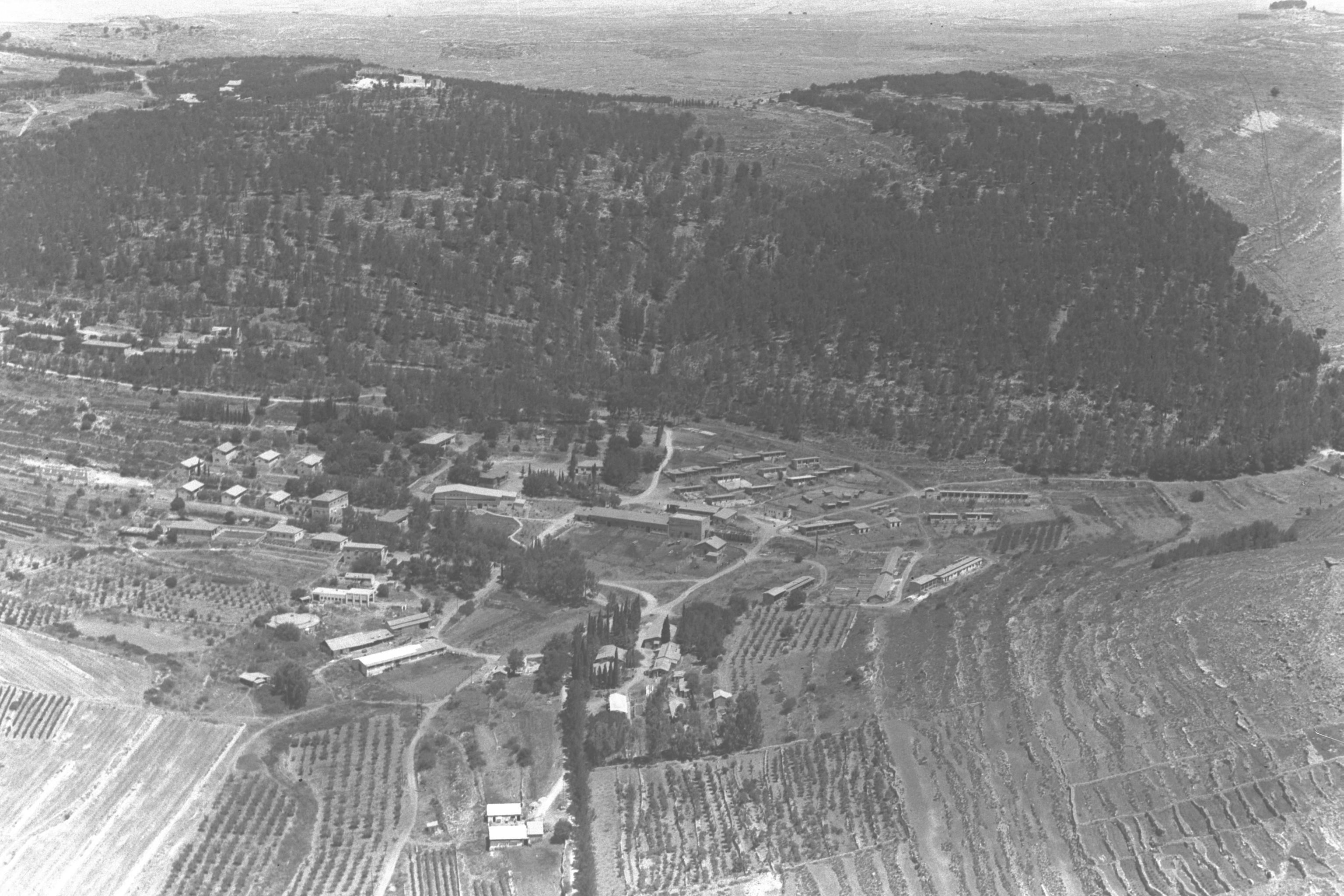 AERIAL VIEW OF KIBBUTZ KIRYAT ANVIM. צילום אוויר של קיבוץ קרית ענבים בהרי ירושלים.